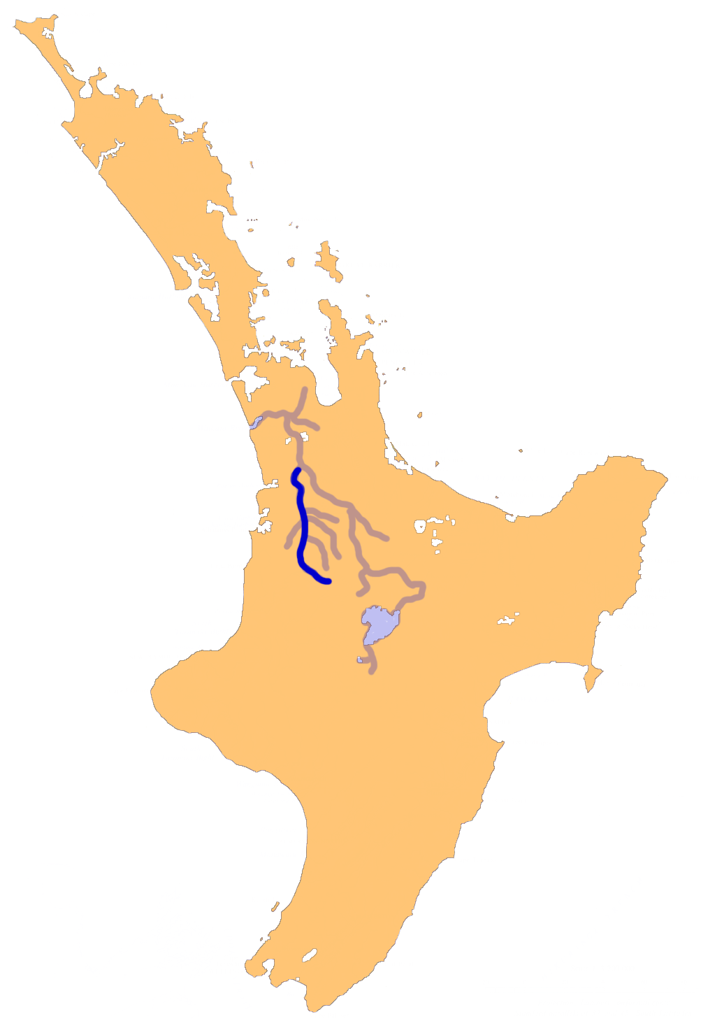 Location map of the Waipa River, New Zealand